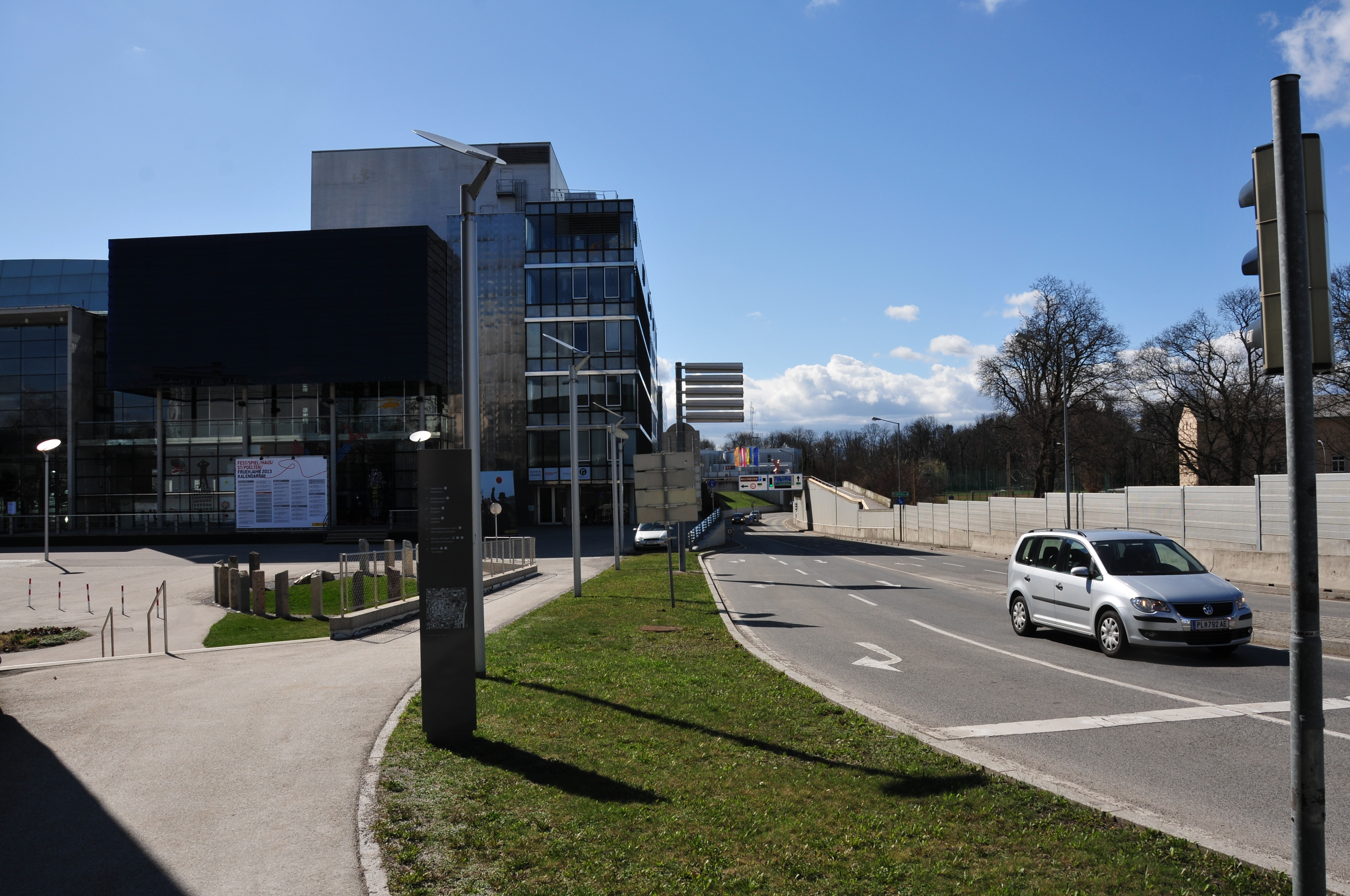 St. Pölten, Austria, Landhausviertel Fotowanderung St. Pölten 13. April 2013 in St. Pölten, Niederösterreich 50mm • Allgemeines • Bahnhof • Domplatz • Fahrräder • Landhausviertel • Rathausplatz